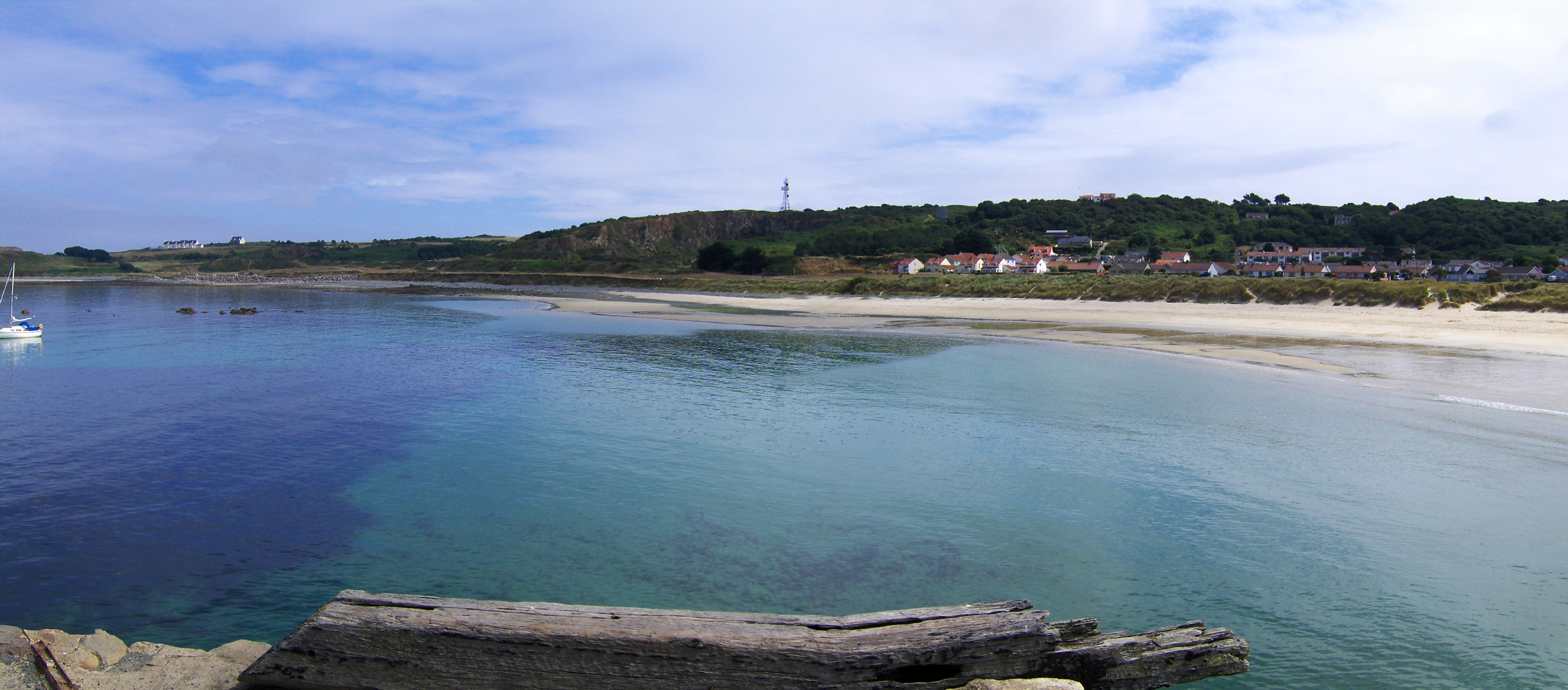 I took this 80 degree panarama of braye beach in early August 2006.